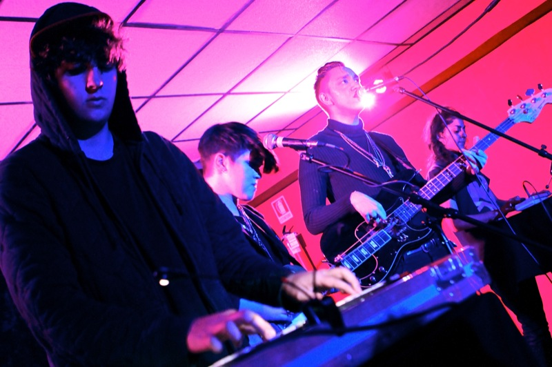 The xx play live at La Casa 139, Milan, Italy on 18 October 2009.